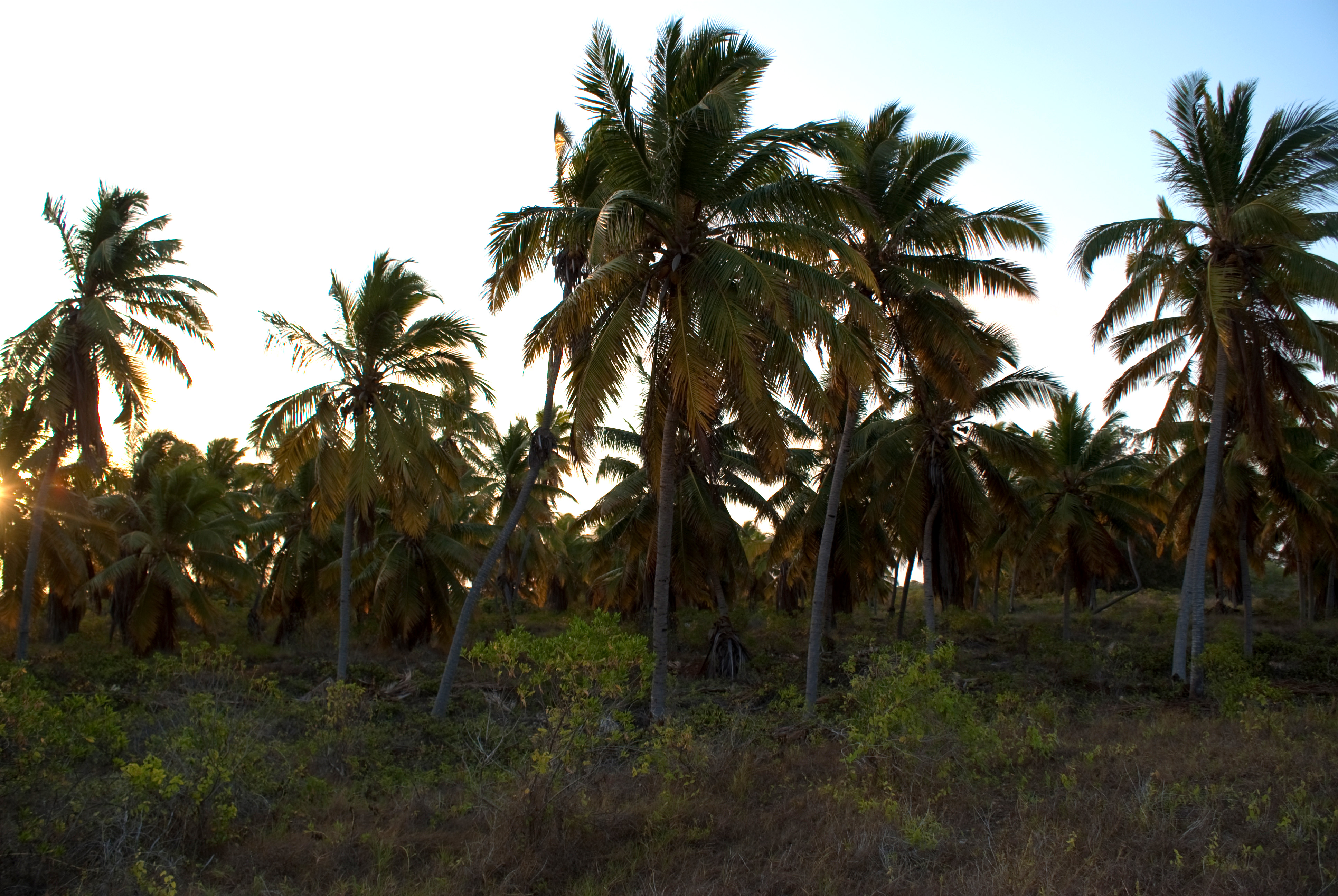 landscape ; Juan de Nova in Indian Ocean belonging to Scattered islands, within the territory of the France.